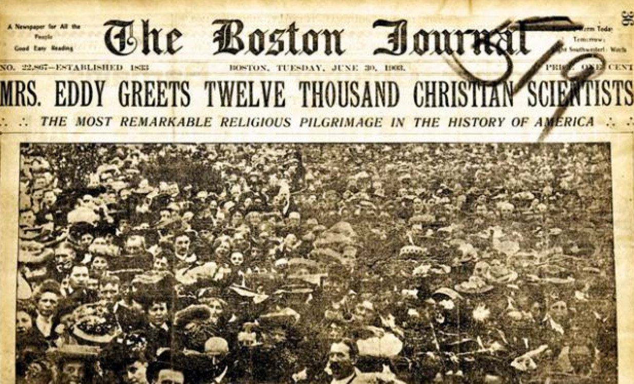 The Boston Journal, 30 June 1903, showing crowds of Christian Scientists at the Pleasant View home in Concord, New Hampshire, of Mary Baker Eddy, the founder of Christian Science. They arrived to see her wave from the balcony.